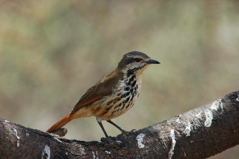 Spotted Morning-thrush perching on a branch.